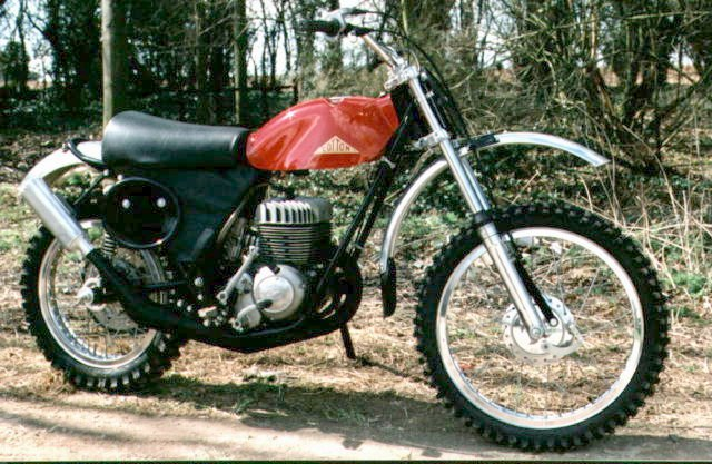 Author: Nick Brown AJS Motorcycles Ltd.